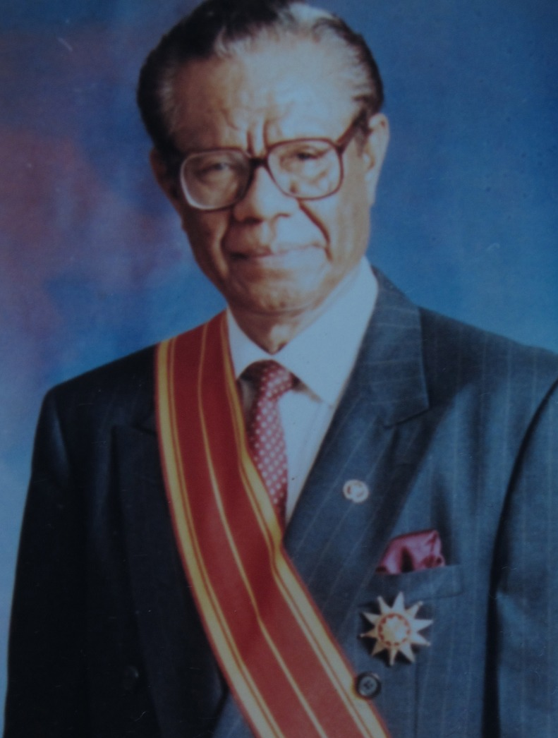 Official photograph of Ben Mang Reng Say as the receiver of the Bintang Mahaputra Adipradana.